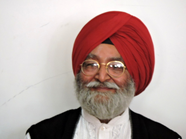 Nirmal Arpan Punjabi Language poet ,Punjab,India